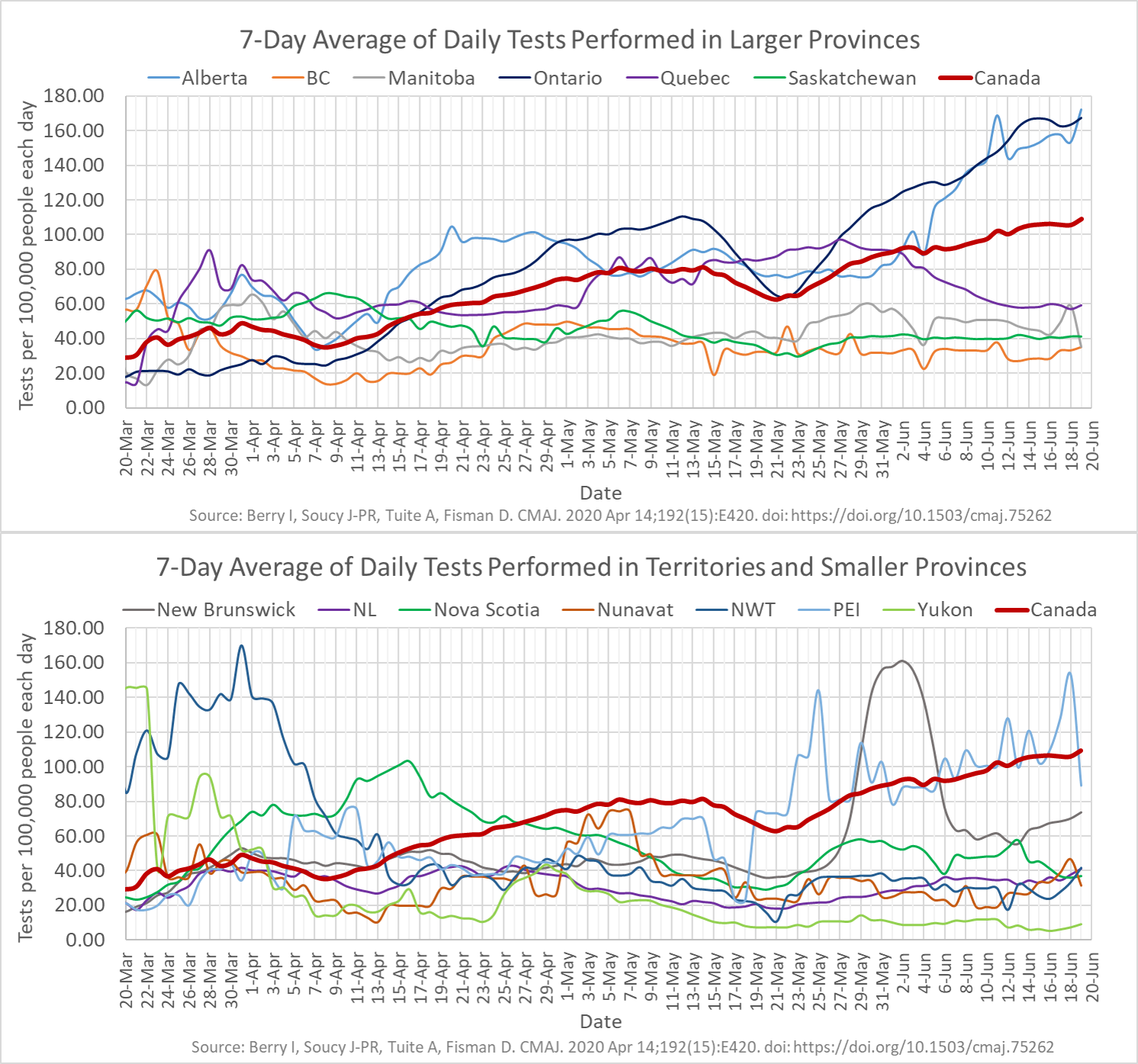 This chart shows the number of COVID-19 tests performed each day by each province and territory in Canada. Each is normalized by its population size to give a testing rate per 100,000. Source data: Berry I, Soucy J-PR, Tuite A, Fisman D. CMAJ. 2020 Apr 14;192(15):E420. Statistics Canada. Table 17-10-0009-01 Population estimates, quarterly The source file to create the chart is at